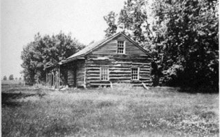 The original homestead on the Cummins land, Eden Prairie, MN, pre-1880.